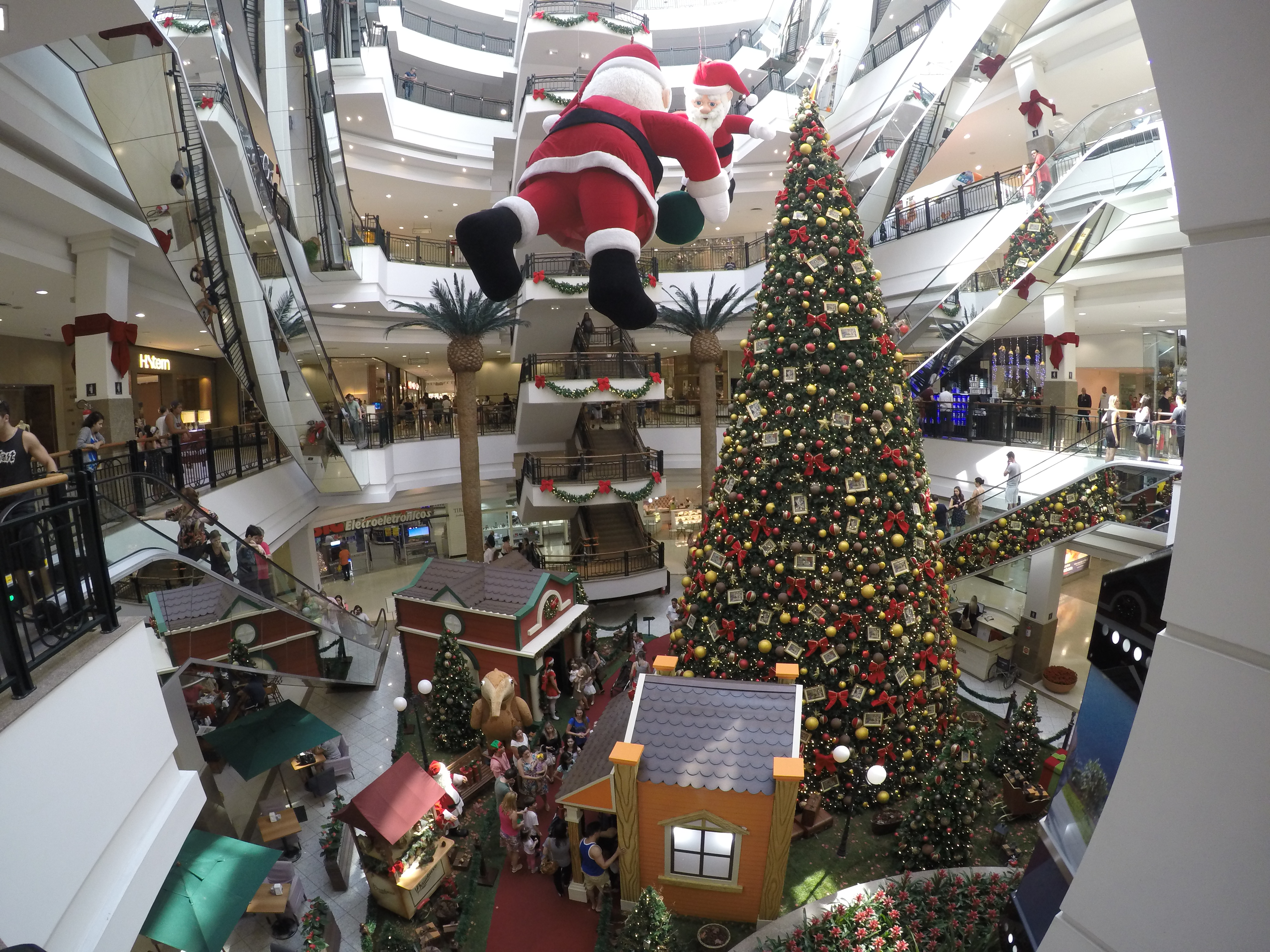 2014 Christmas tree at Iguatemi Shopping, Florianópolis, Brazil.